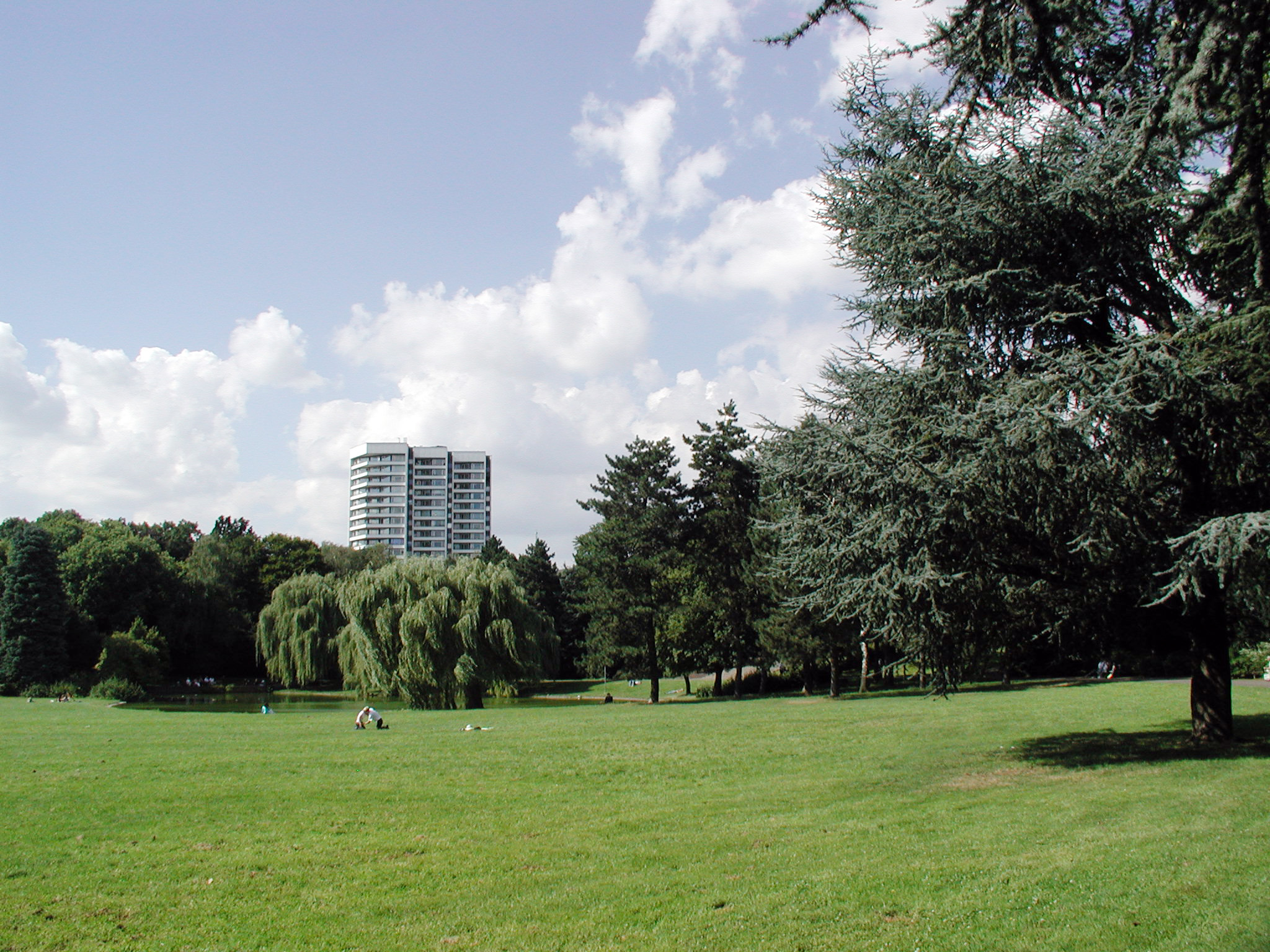 Cologne